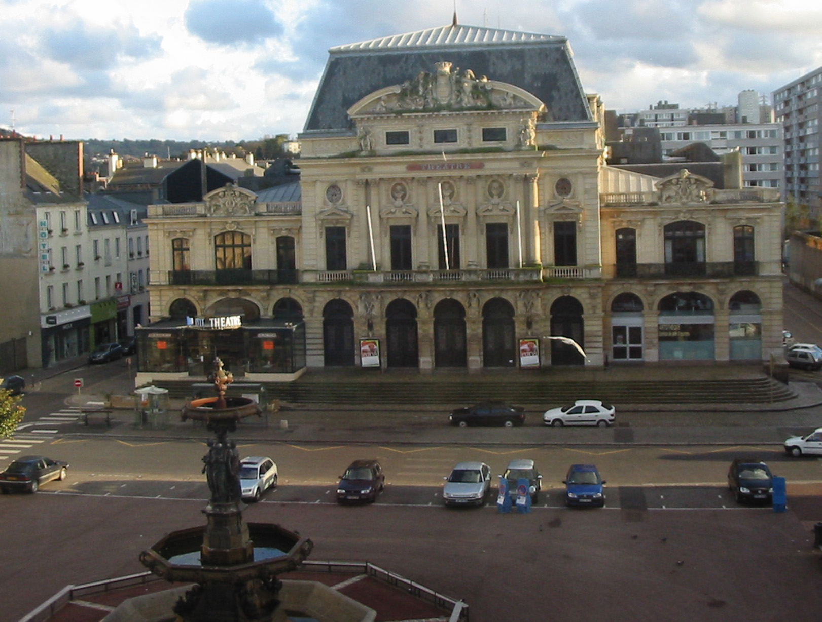 Theater and foutain in Cherbourg (France, Normandy)